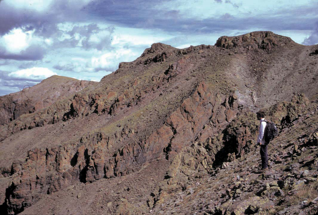 Sequence of andesitic lava flows (unit Tsa, Stewart Peak Volcanics) within Nelson Mountain caldera of San Luis complex, on west flank of Stewart Peak volcano. View north along ridge between Spring and Mineral Creeks (west margin of San Luis Peak quad). Photo from U.S. Geological Survey Geologic Investigations Series I-2799 Version 1.0 Geologic Map of the Central San Juan Caldera Cluster, Southwestern Colorado by Peter W. Lipman, published in 2006.